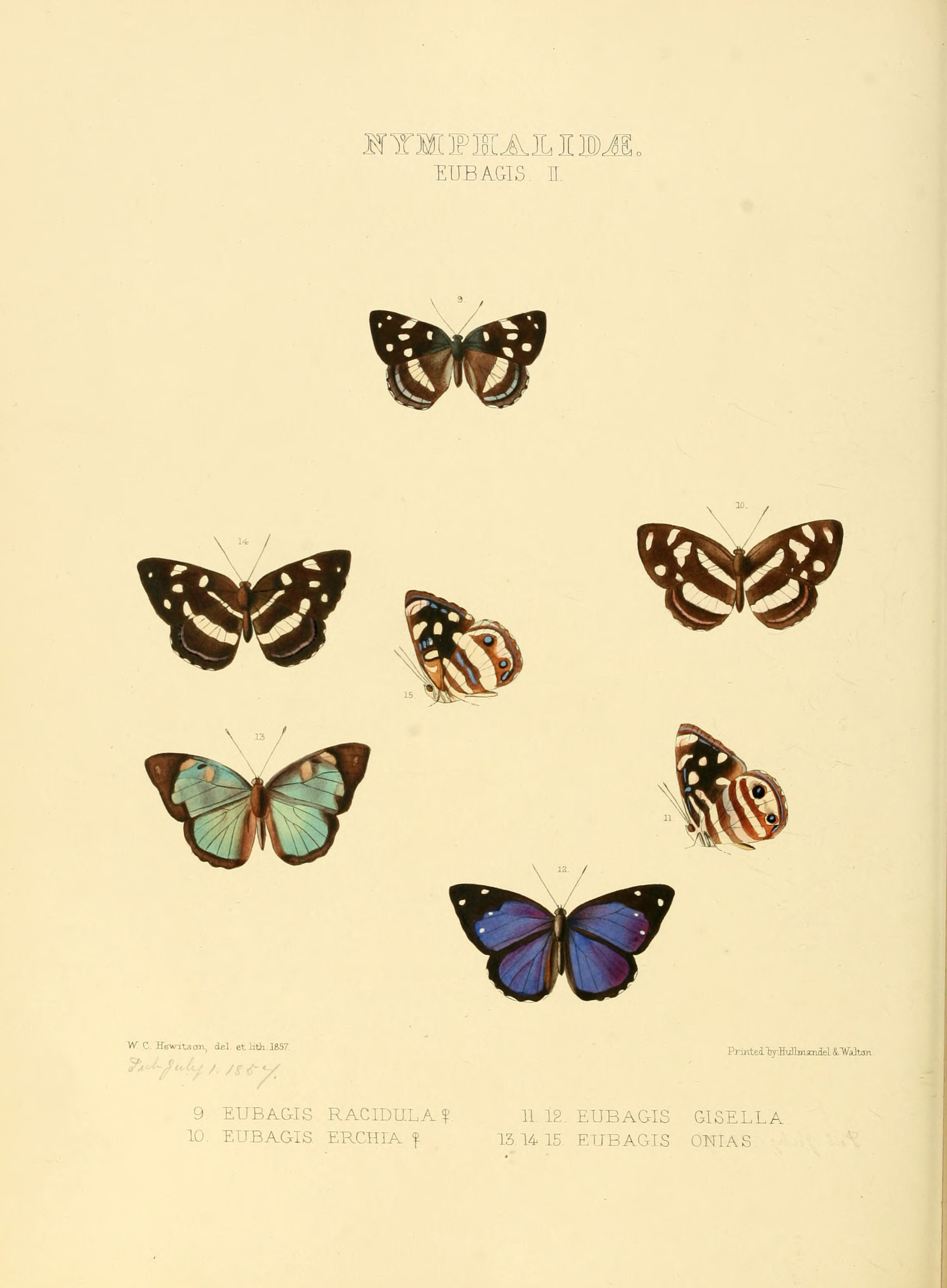 Plate: Eubagis II Eubagis racidula. Fig. 9. Accepted as Dynamine racidula (Hewitson, 1852). Eubagis erchia. Fig. 10. Accepted as Dynamine erchia (Hewitson, 1852). Eubagis gisella. Figs. 11, 12. Accepted as Dynamine gisella (Hewitson, 1857). Eubagis onias. Figs. 13, 14, 15. Accepted as Dynamine onias (Hewitson, 1857).